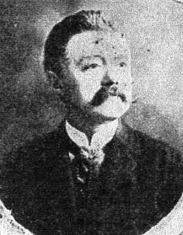 Uploaded via Files for Upload on the English Wikipedia, specifically from these requests. Photograph of Sergeant Thaddeus B. Glover published in 1907.